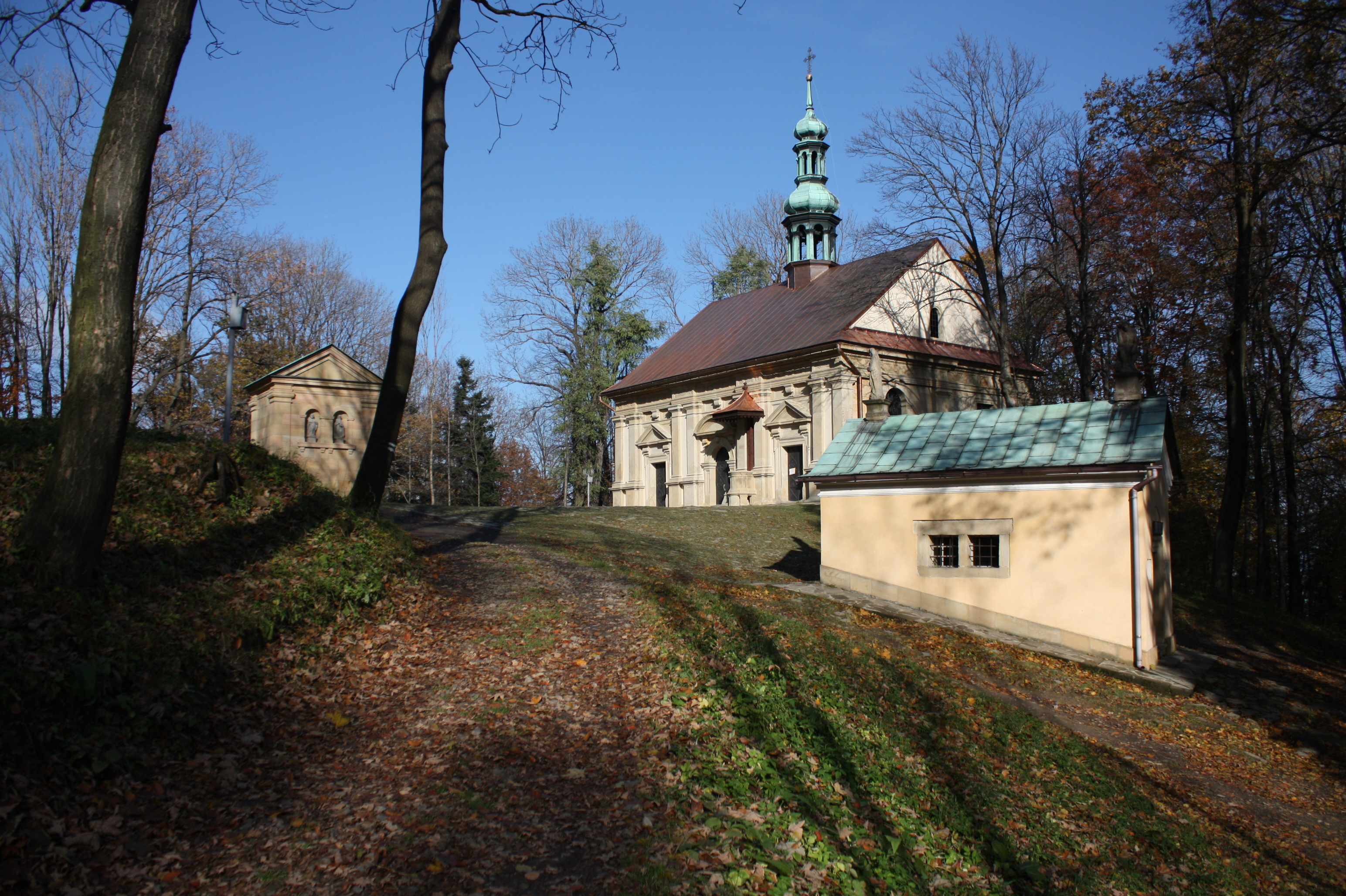 Kalwaria Zebrzydowska, Pathways of Passion of Christ, Chapels of Crucifixion and Disrobement of Christ